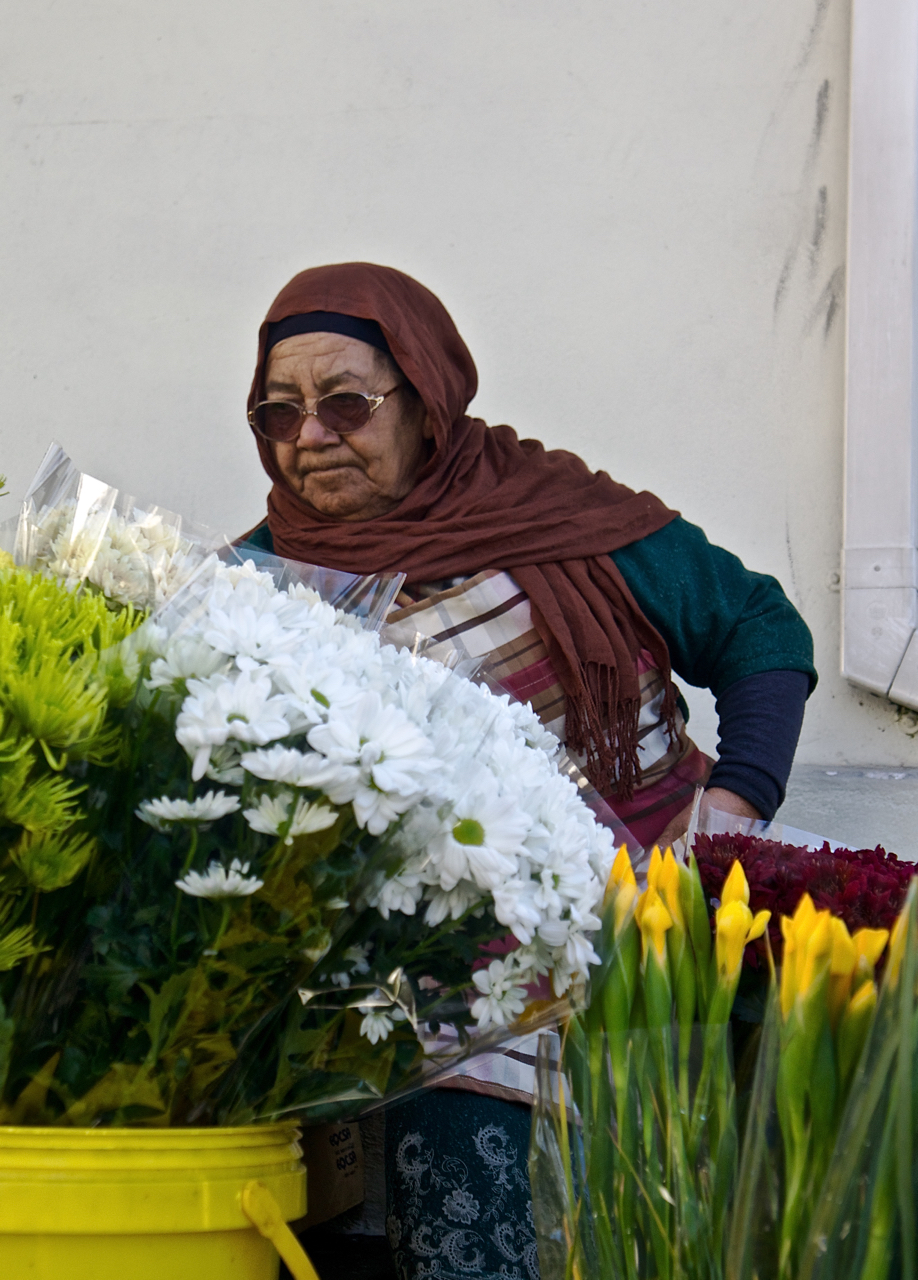 Cape Malay flower seller This is an image of "African people at work" from South Africa